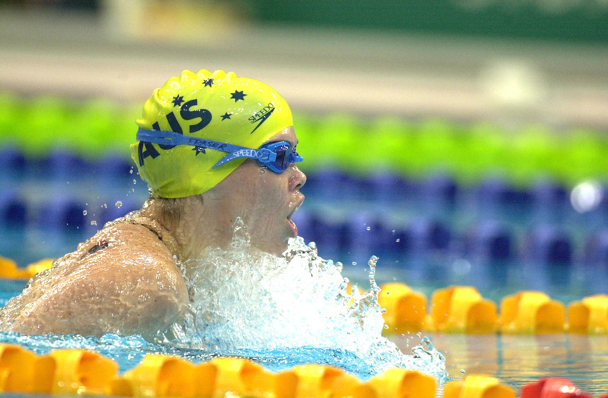 Australian swimmer Amanda Fraser competes in the S7 200IM at the Sydney 2000 Paralympic Games, 20 October 2000